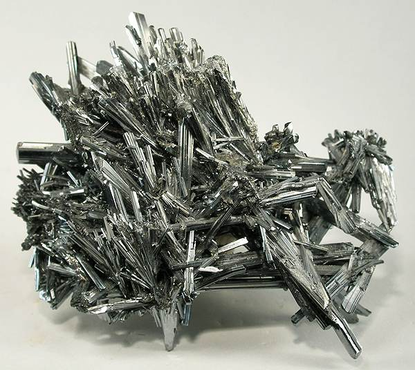 Stibnite Locality: Wuning Mine (Wuling Mine; Qingjiang Mine), Qingjiang, Wuning County, Jiujiang Prefecture, Jiangxi Province, China (Locality at ) Size: 10.5 x 8.8 x 5.8 cm. A stunning, cabinet cluster of splendent, beautifully striated, stainless steel-gray stibnite blades from a new find at the Wuning (Wuling) Mine of China. This is a fabulous, two-sided piece with the plate of limestone matrix attached on one side. Part of the piece is this incredible bridge girder arrangement of the blades and the overall density of stibnite blades is striking.